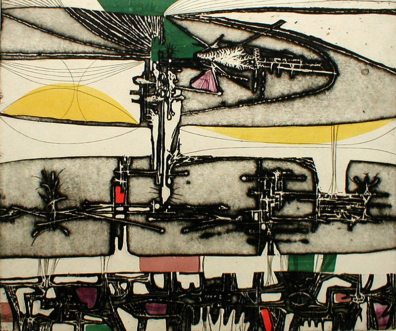 "Spawning III", 1952, intaglio print, 11 x 17 inches by Gabor Peterdi, from Portfolio of Prints by Gabor Peterdi